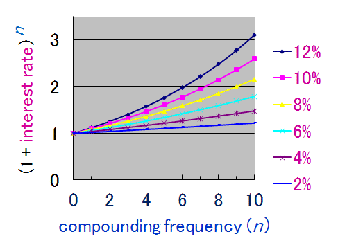 A graph of compound interests